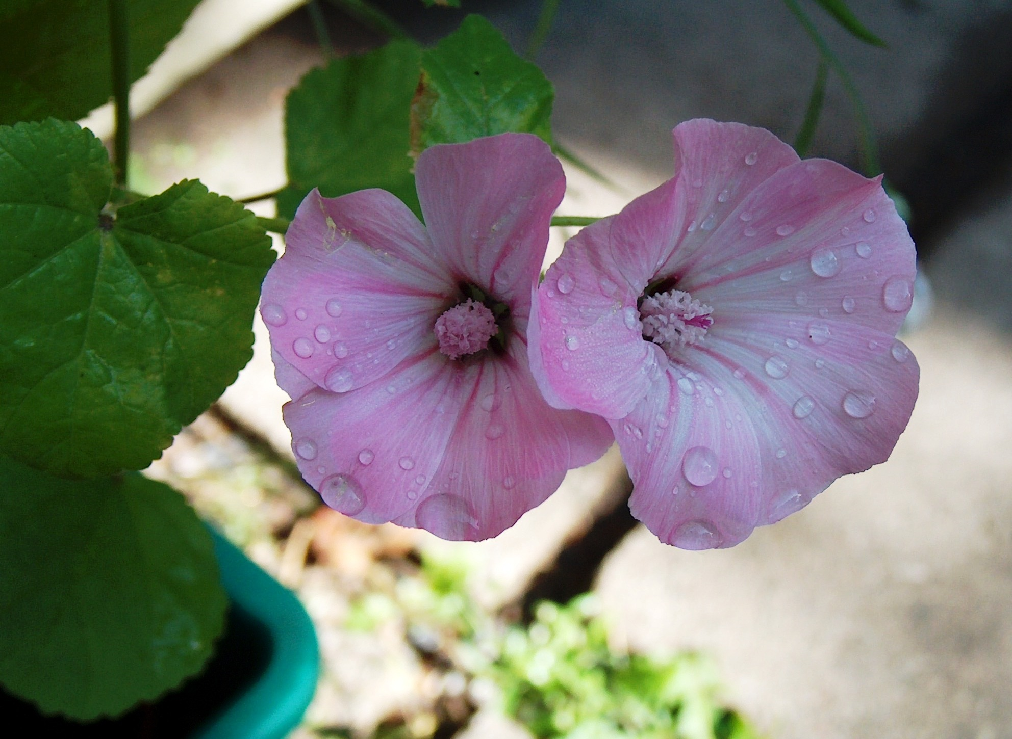 Lavatera trimestris after rain